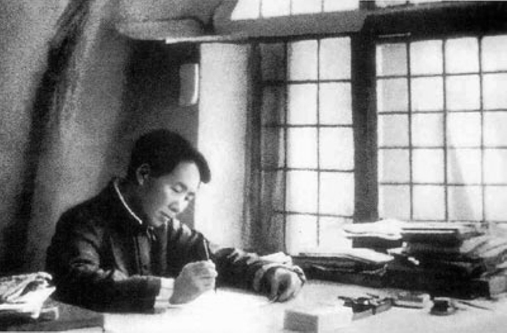 Mao in 1938 Bân-lâm-gú: 1938-nî ê Môo Ti̍k-tong.